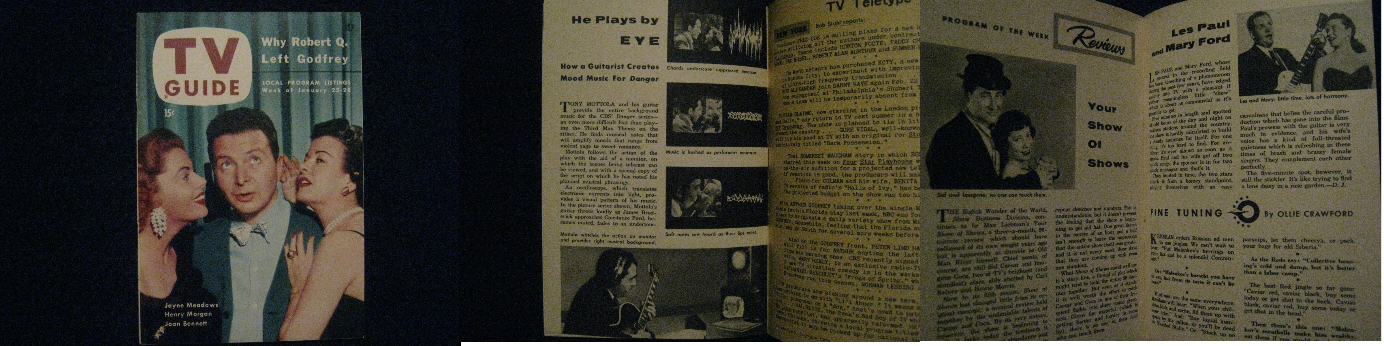 Pages from a January 22-29 1954 copy of TV Guide.